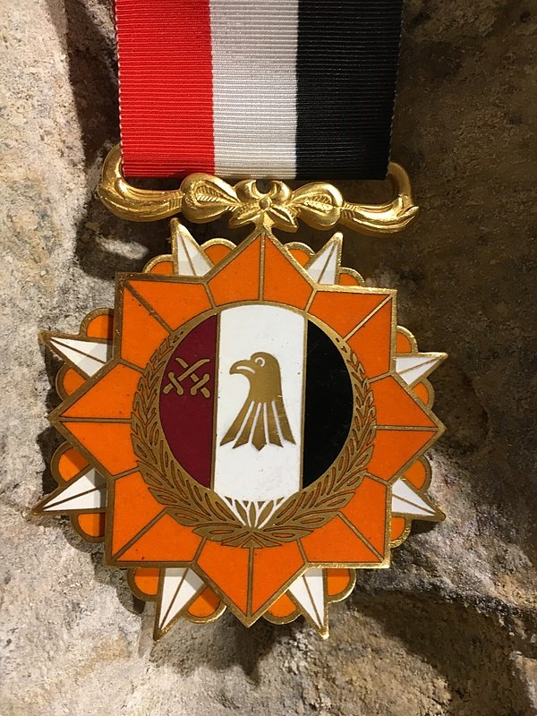 First type of the Second Class of the Order of the Republic, Libyan Yamahiriya